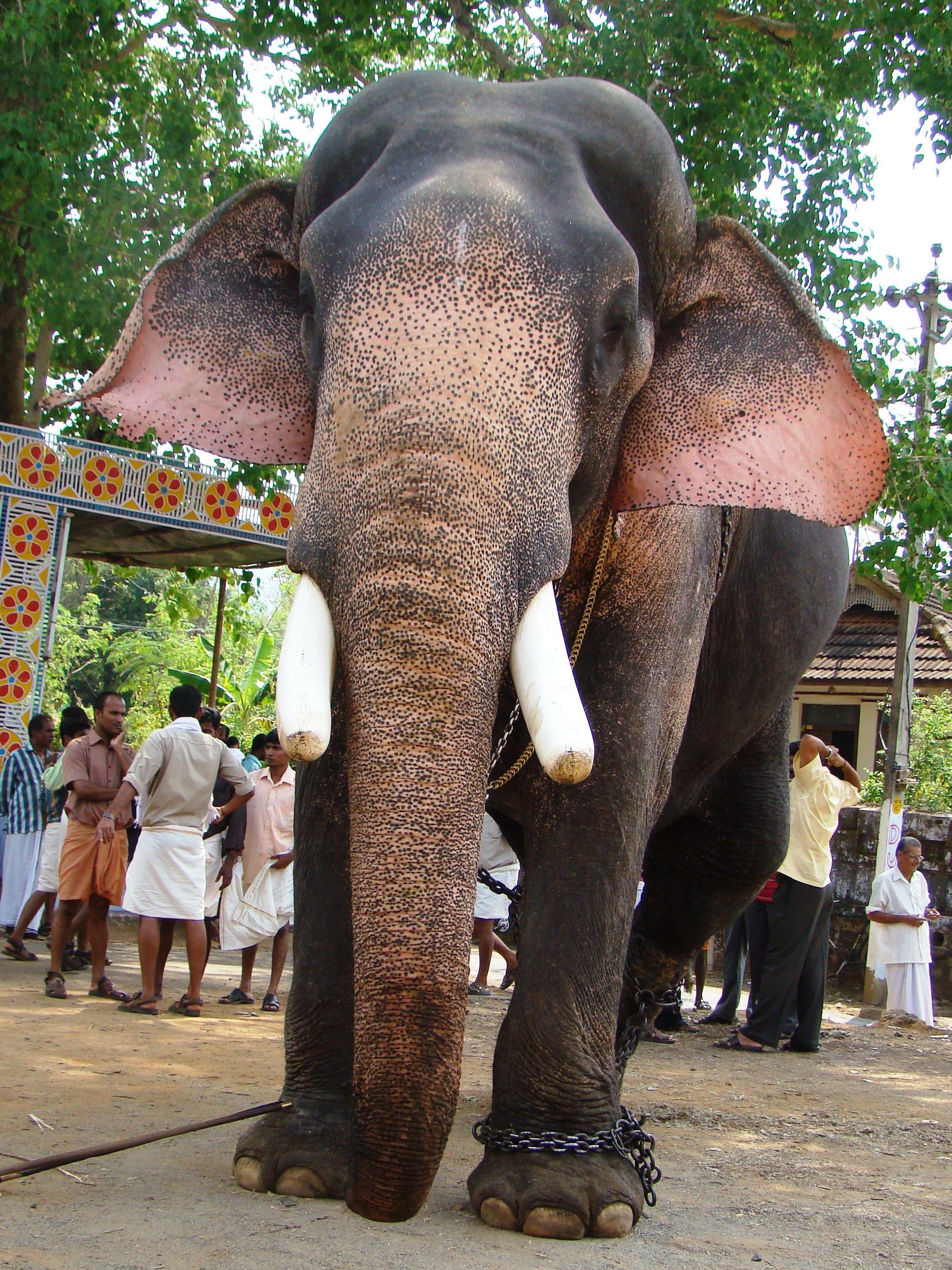 Cherpulassery Sekharan is a domesticated elephant in the state of Kerala, India.